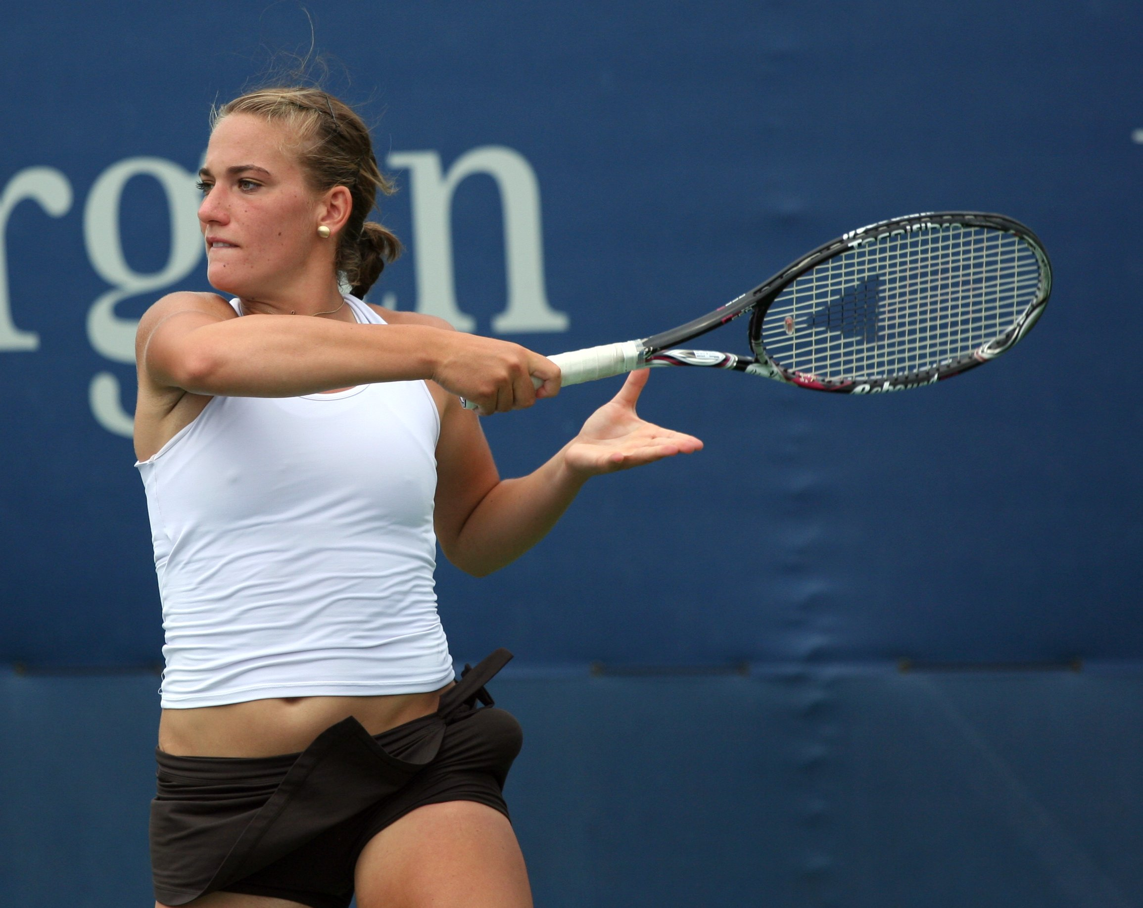 U.S. Open Juniors Wednesday, Sept. 9, 2009